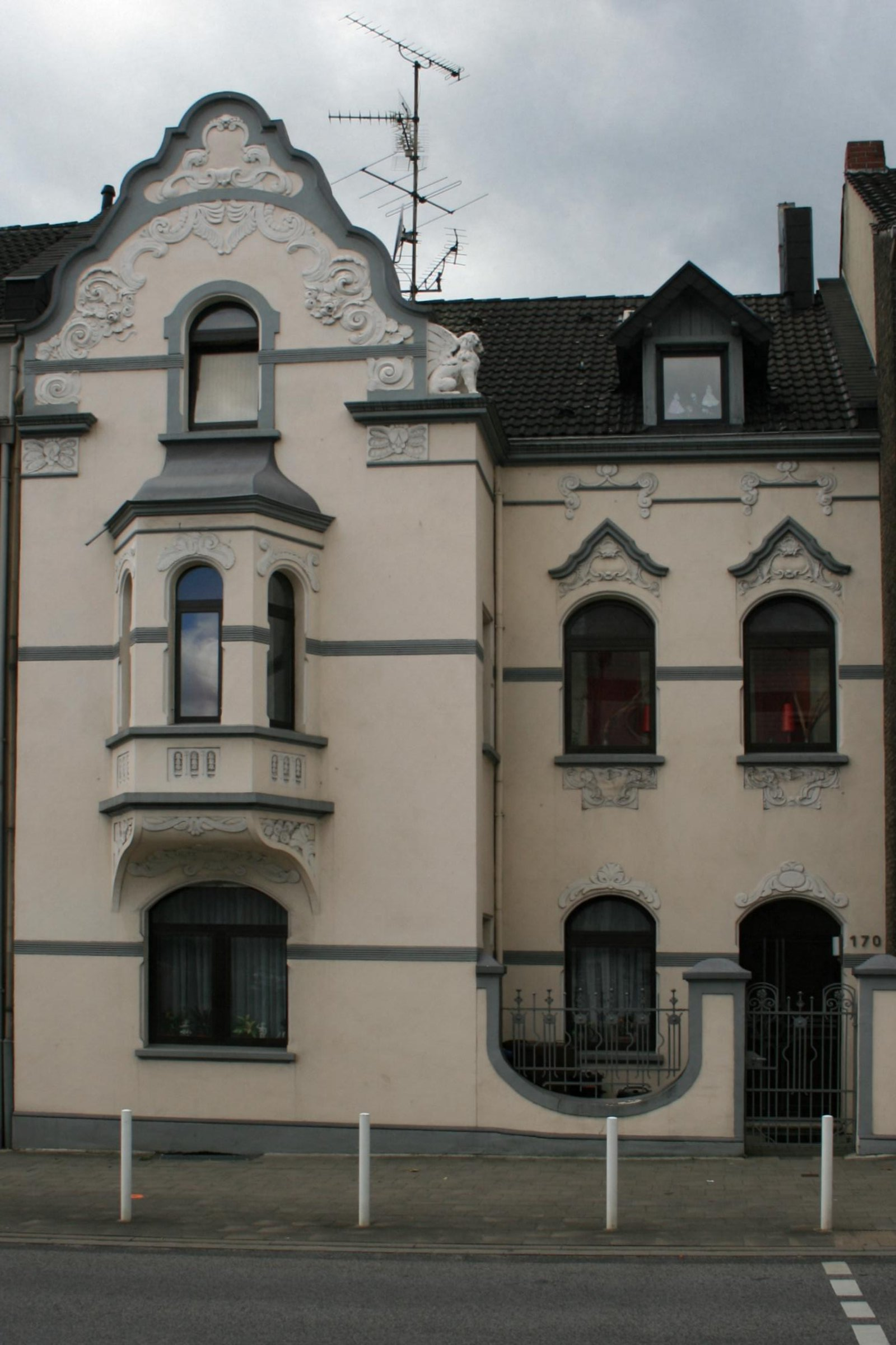 Cultural heritage monument No. M 034 in Mönchengladbach